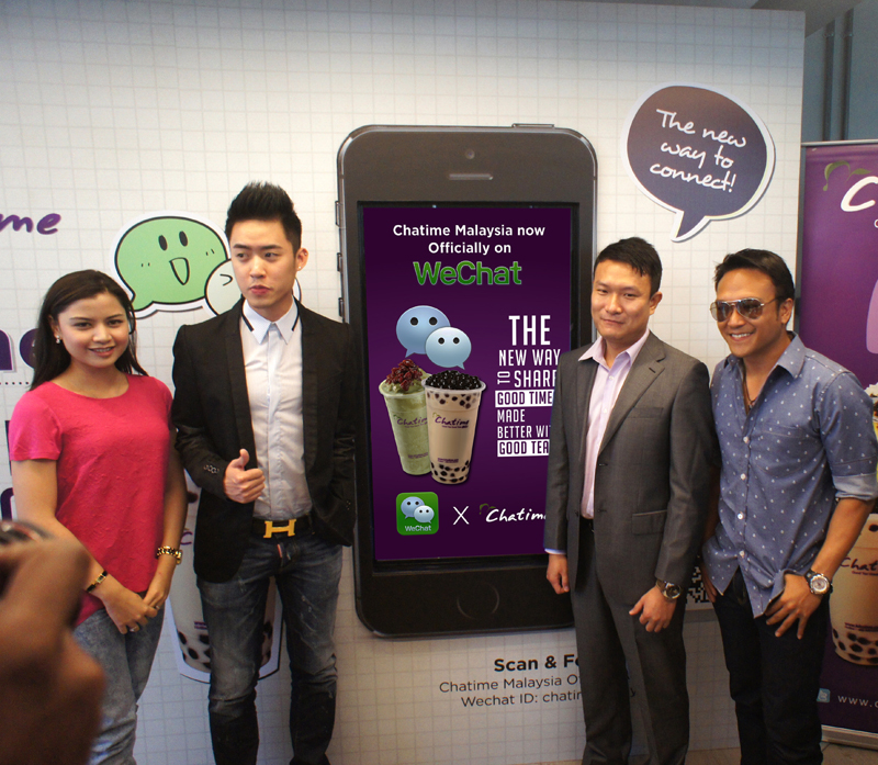 Photo taken at a press conference between Chatime and WeChat. On the far left and right are Malaysian celebrities and WeChat ambassadors, Lisa Surihani and Shaheizy Sam. Second to the left is Bryan Loo, CEO of Chatime Malaysia.